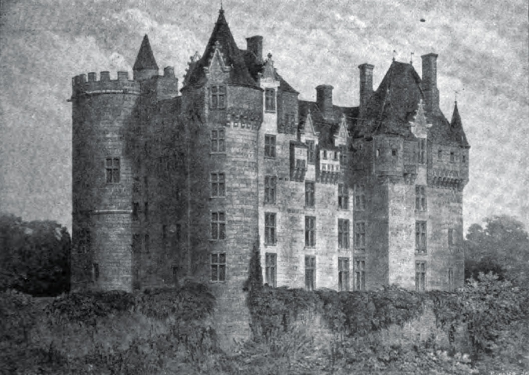 Drawing of the Château de Montsabert